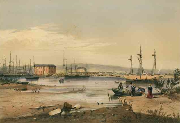 Port Adelaide, lithograph based on drawing by George French Angas